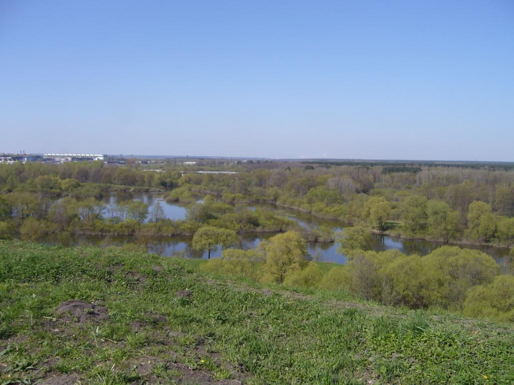 Confluence of Bolva river to Desna river in Bryansk. View from Chashin Barrow